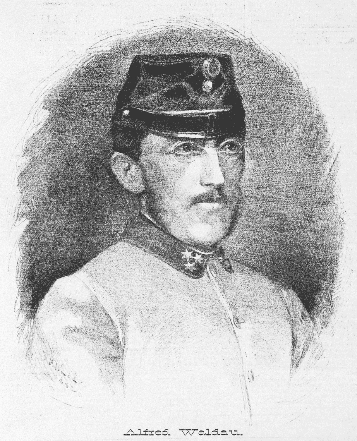 Portrait of Alfred Waldau (1837-1882), real name: Josef Jarosch, a German-speaking lawyer, officer, writer and translator from Czech language